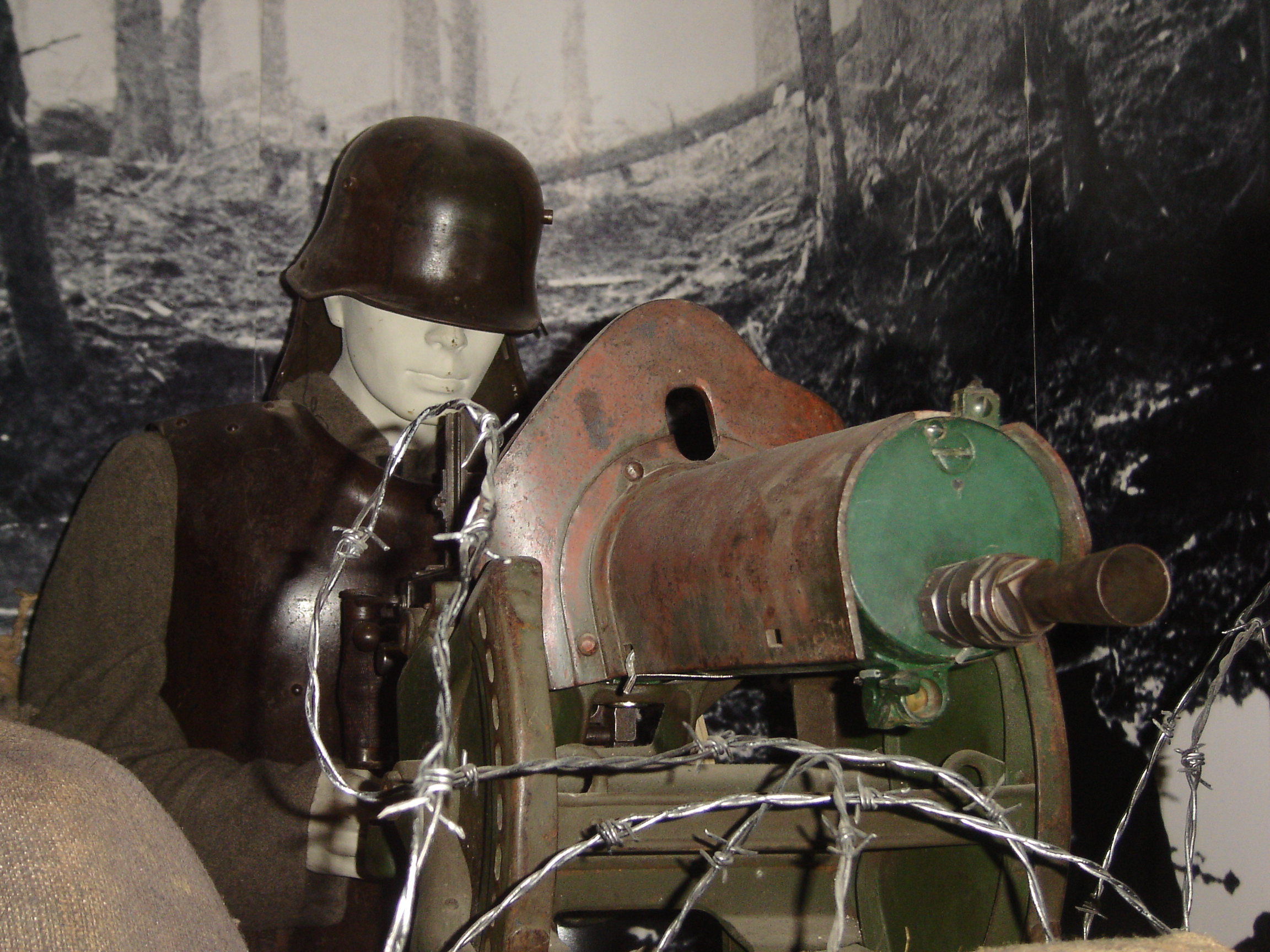 A model of a typical entrenched German machine gunner in World War I. He is operating a Maxim gun, wearing a Stahlhelm and cuirass to protect him from shrapnel, and is behind rows of barbed wire and sandbags. Taken at the Auckland War Memorial Museum.